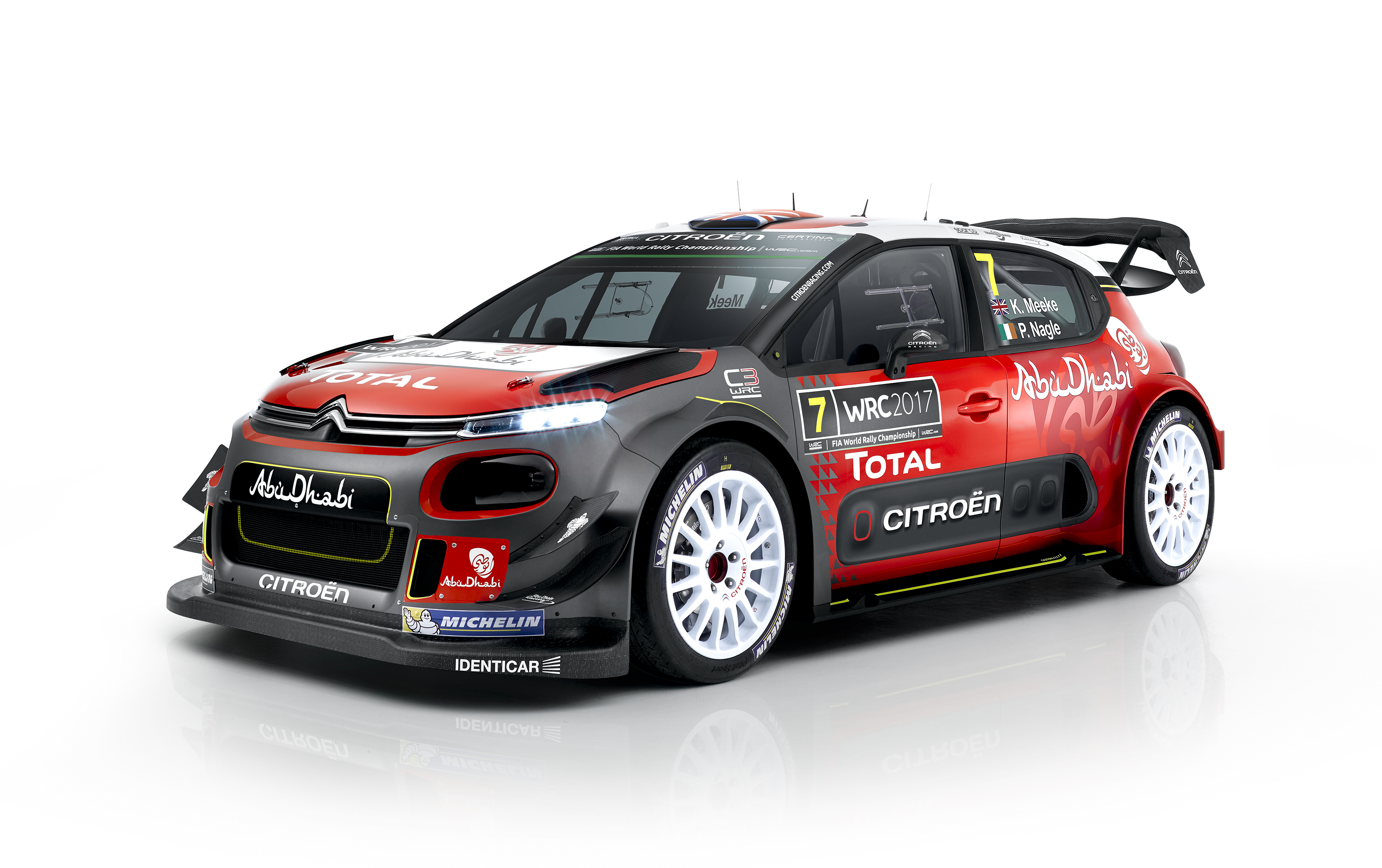 Citroën C3 WRC of Citroën World Rally Team